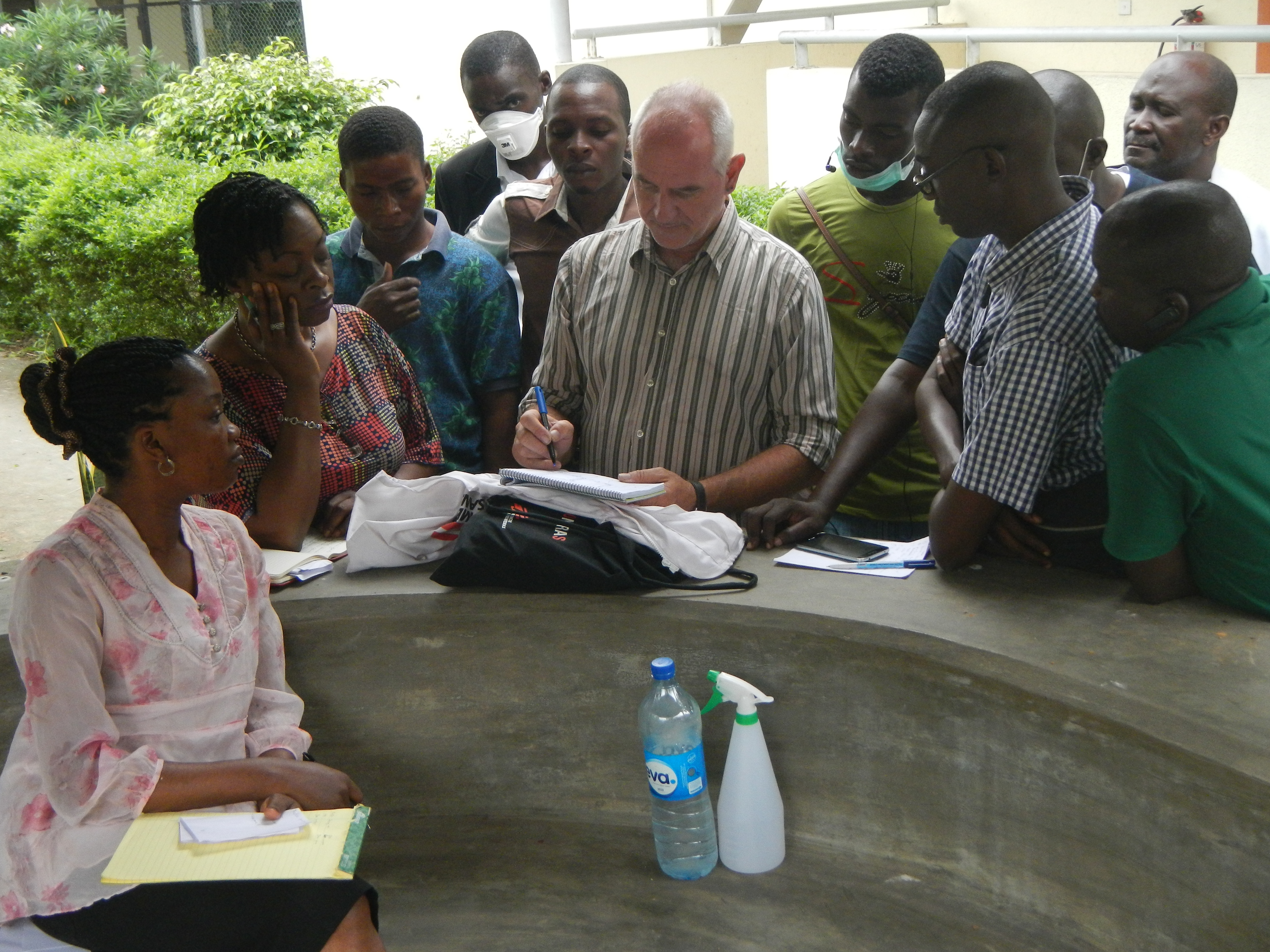 For more information on Ebola and what CDC is doing, please visit